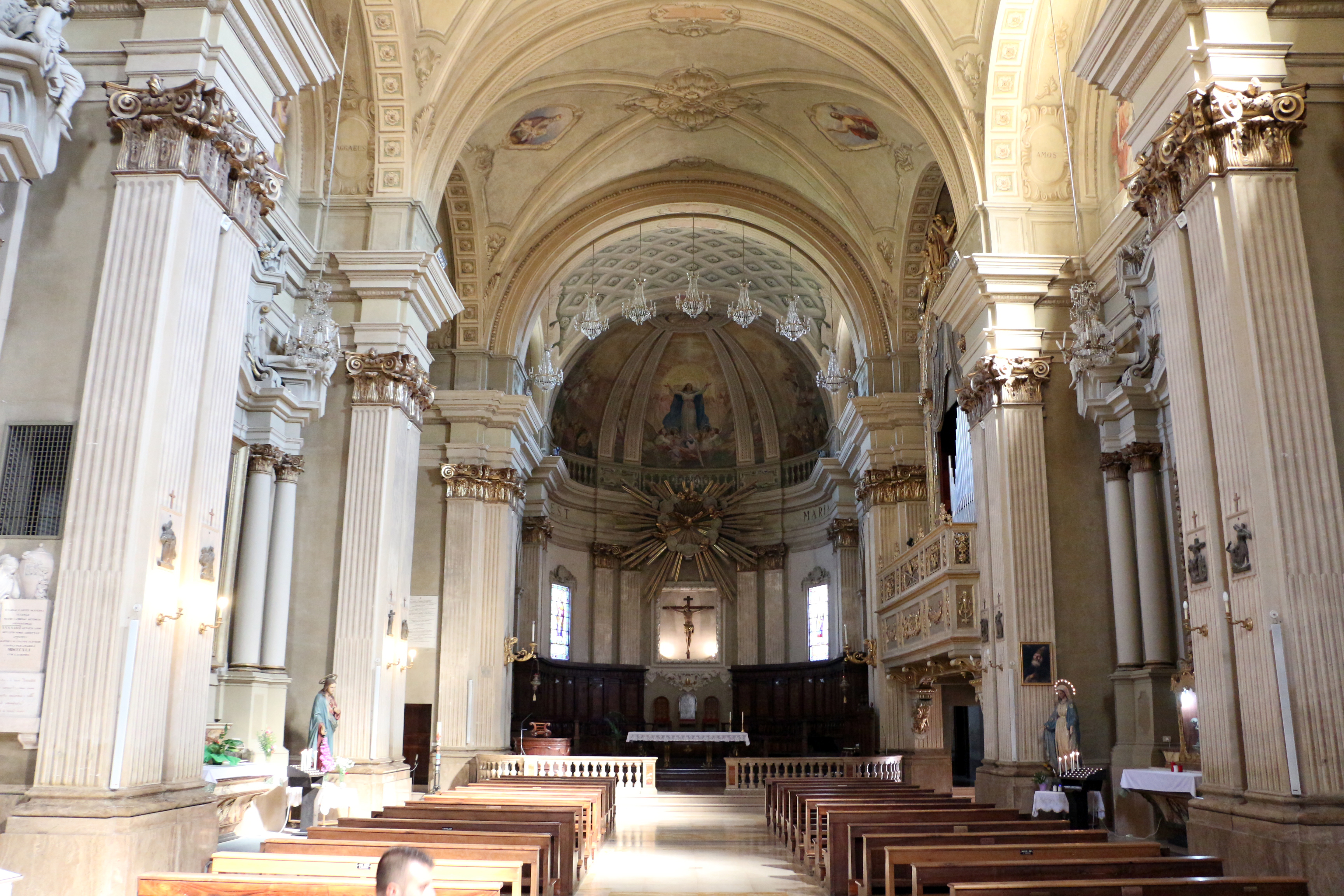 San Severino Marche